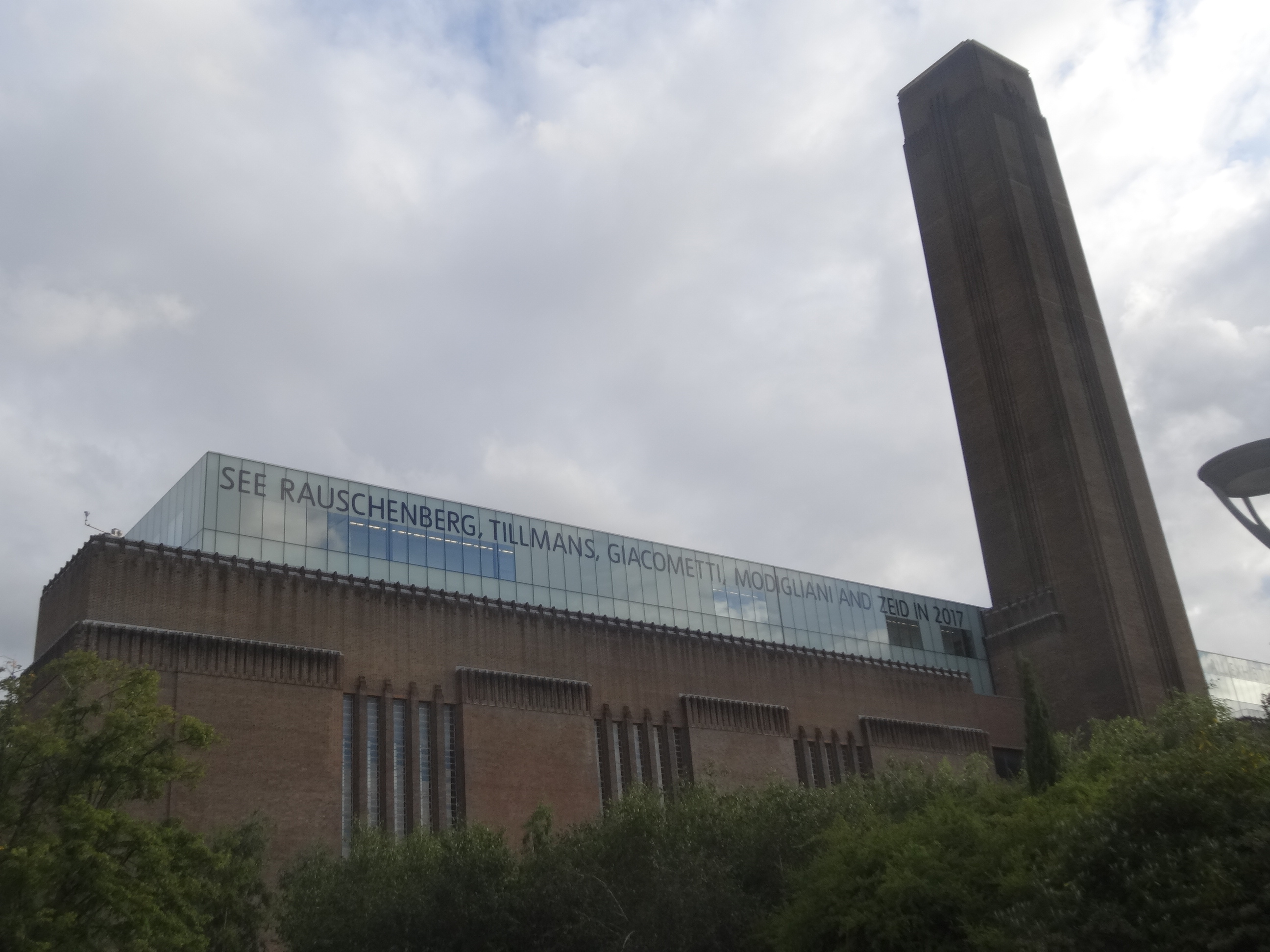 Tate Modern